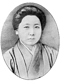 Tang Qunying in Japan in 1906